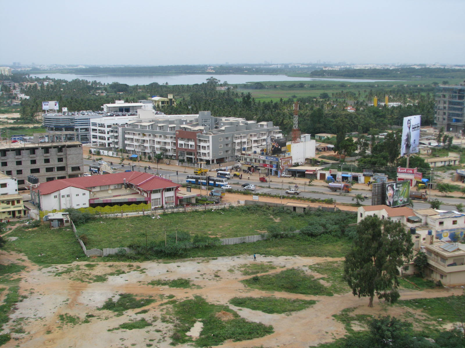 Outer Ring Road from ILife Apartments with Bellandur